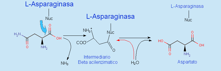 Reaction of L-Asparaginase to form Aspartate. Made with Corina Software